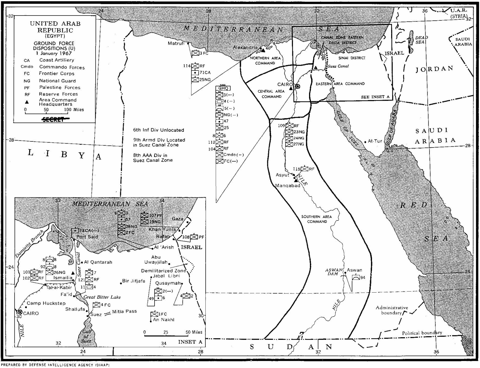 Ground force dispositions of the United Arab Republic (Egypt) as of 1 January 1967 prepared by Defense Intelligence Agency (DIAAP).